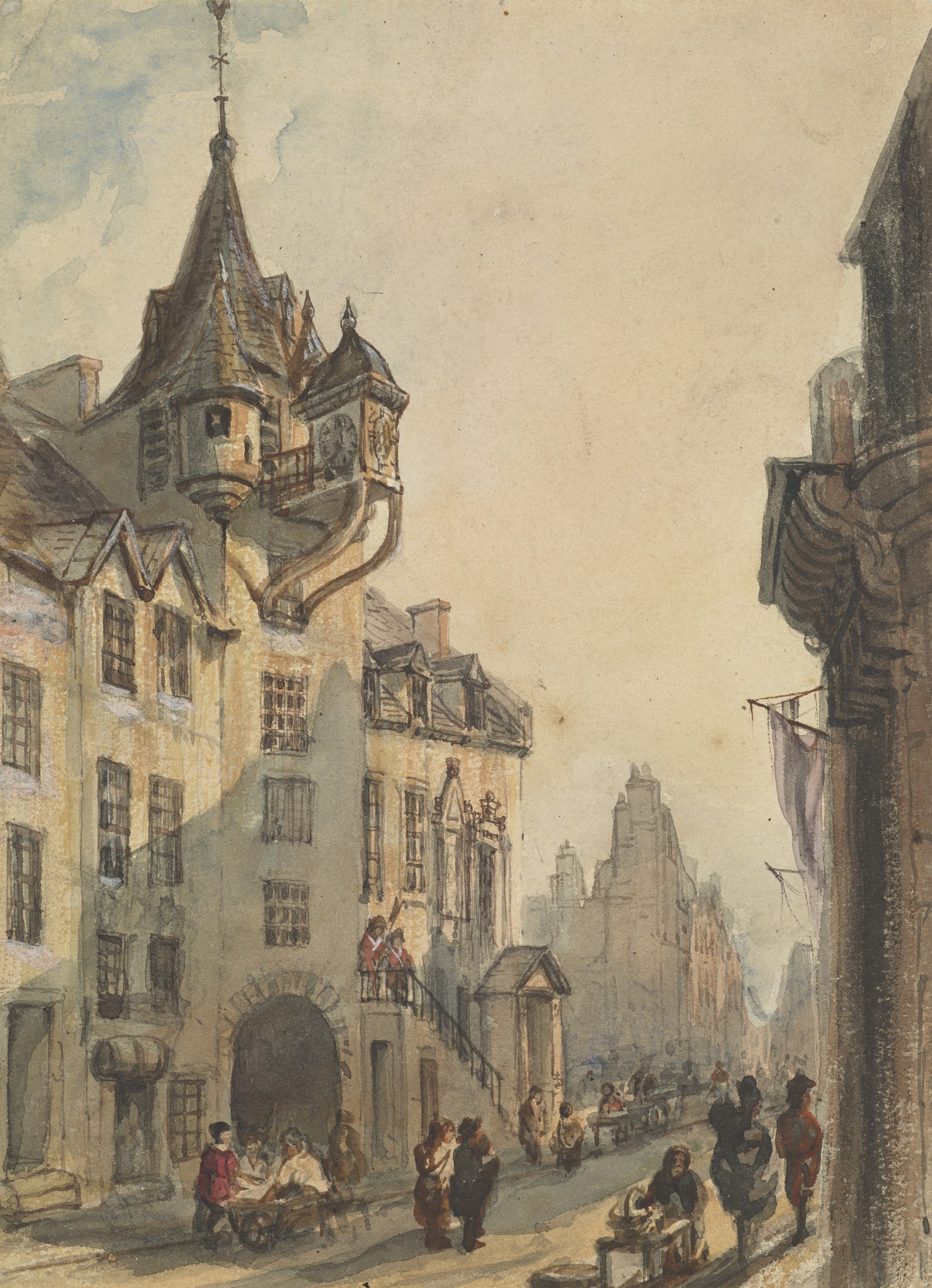 Henry Gibson Duguid William Finlay Watson Bequest 1881